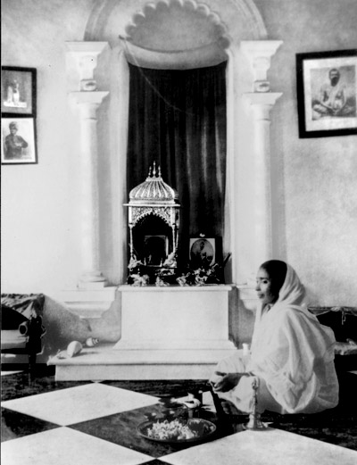 Sarada Devi worshipping at Udbodhan office, Calcutta. Notice pictures of Vivekananda and Ramakrishna on the wall.